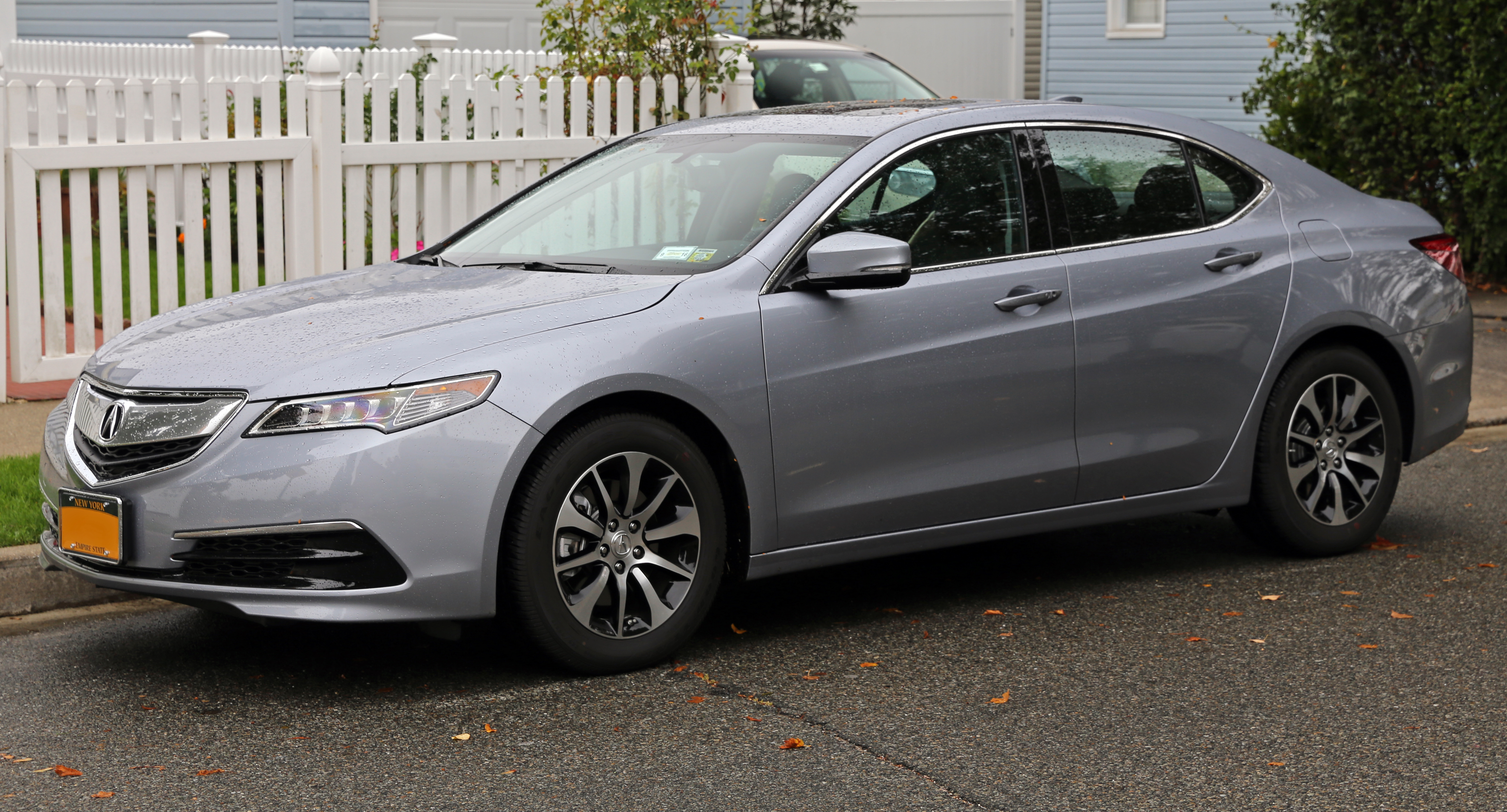 A 2015 Acura TLX, with the 2.4 liter inline-four coupled to an eight-speed dual-clutch transmission (DCT).